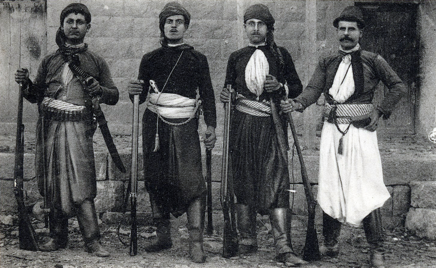 A french post card showing four Christian men from Mount Lebanon (in Syria at that time — late 1800s) with their full set of weapons.